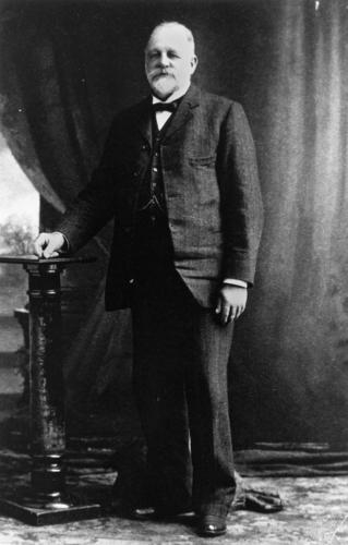 J. J. Cadell of Ideraway Station. Son of Dr. James John Cadell and Catherine Cadell of Raymond Terrace, New South Wales (formerly of Scotland). Born in 1843 and died at Gayndah in 1919.